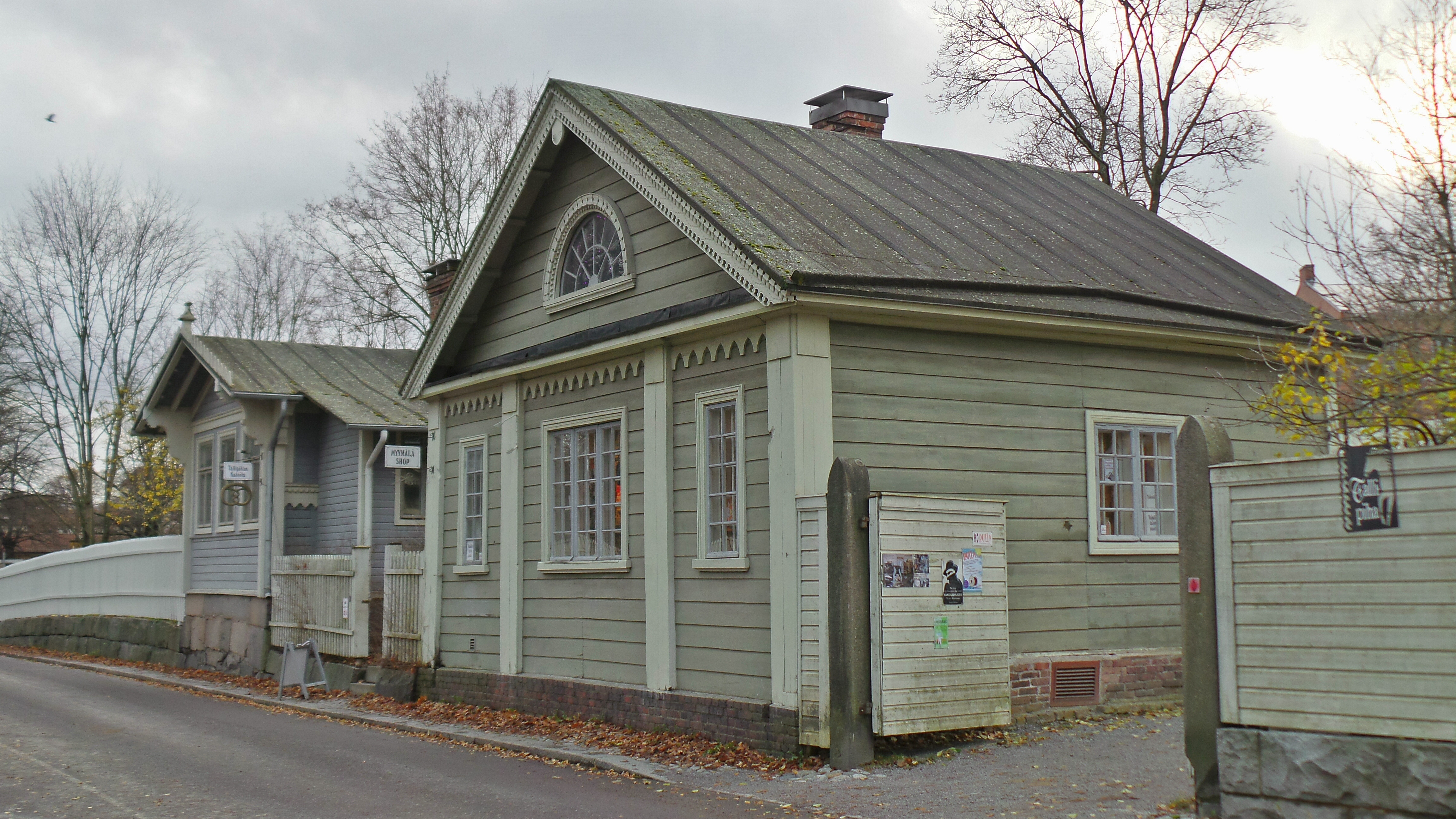 Kuninkaankatu